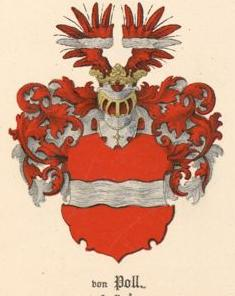 Coat of arms of von Poll family